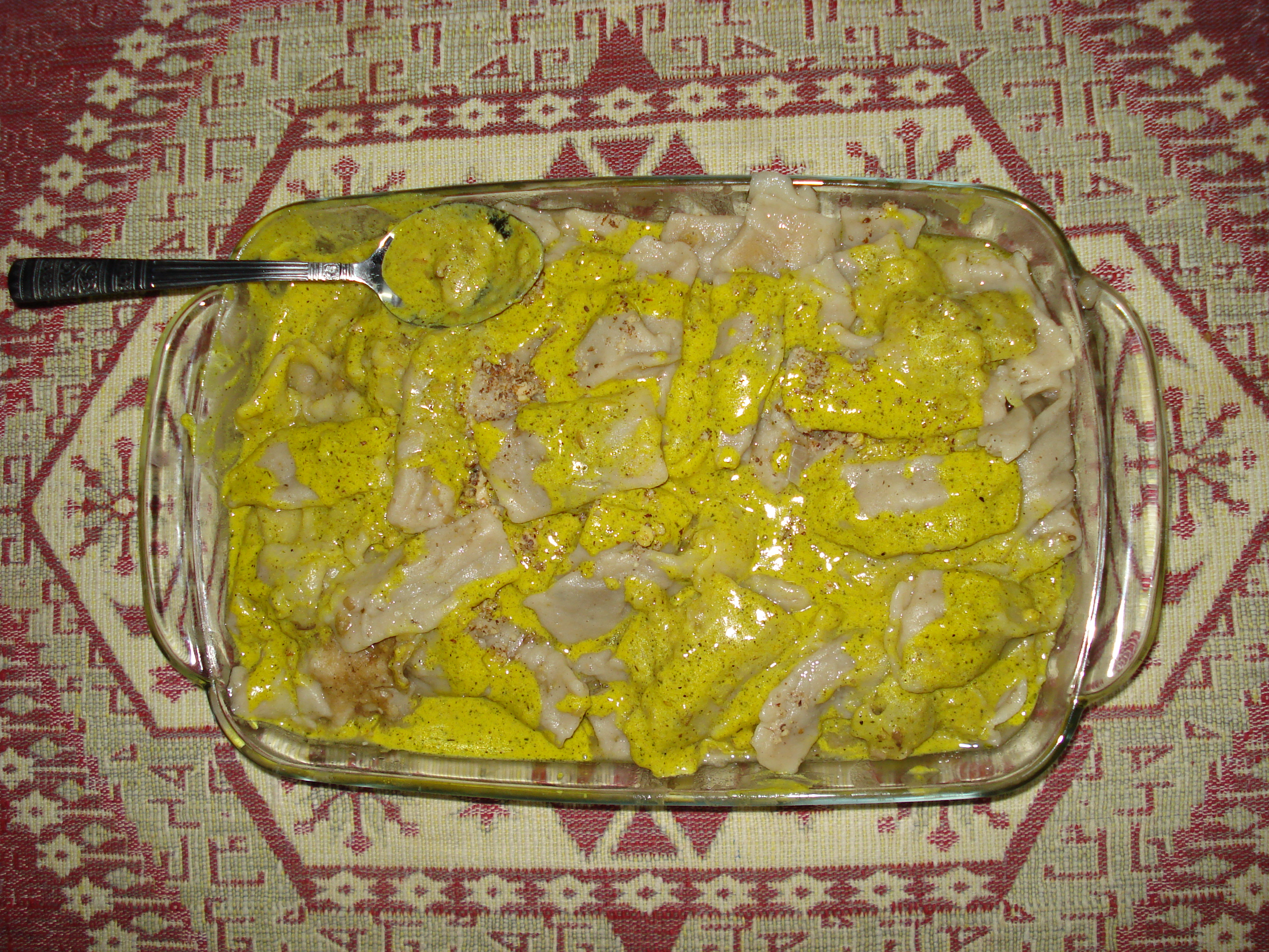 Aash Iranian traditional food